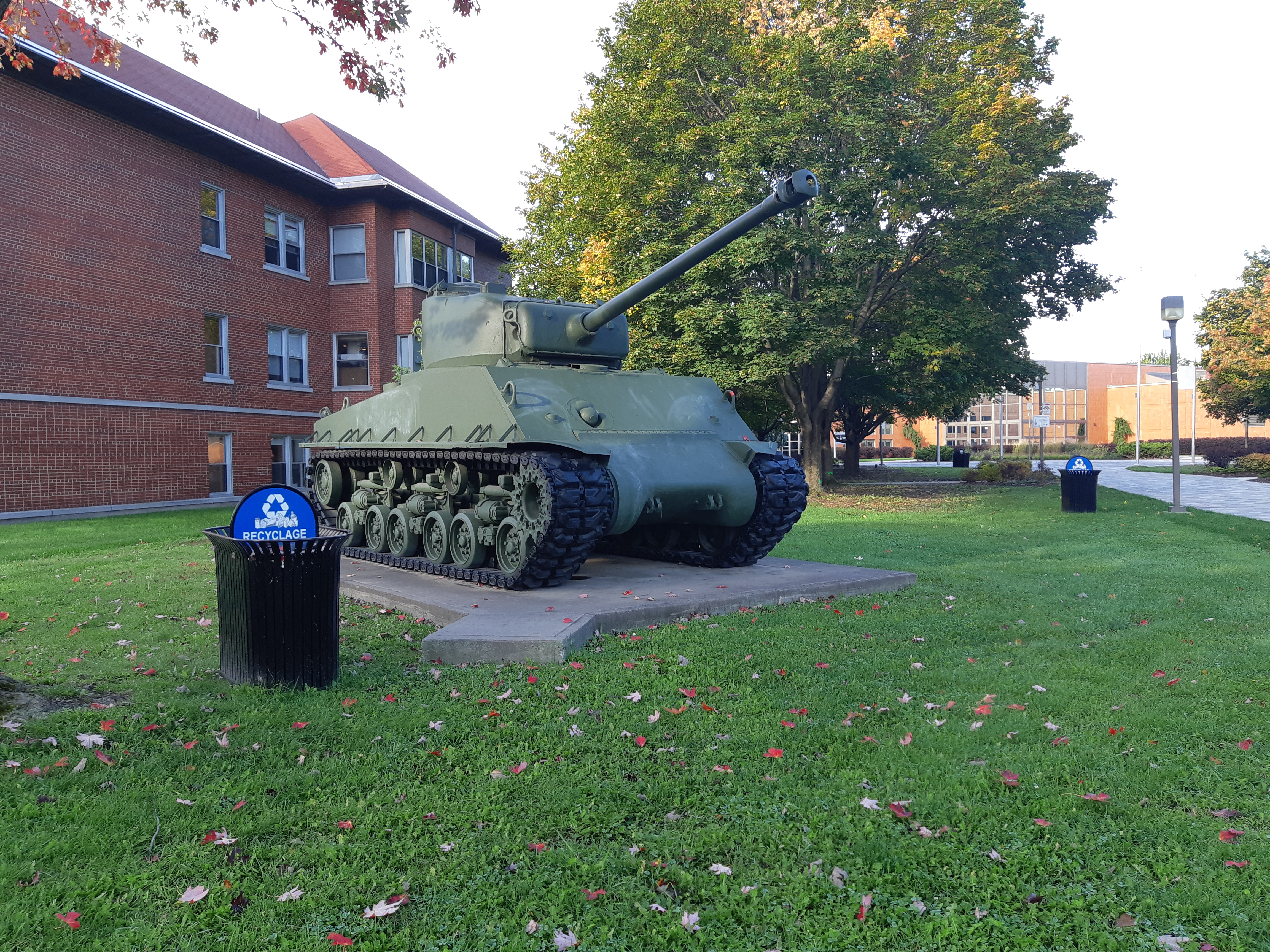 Sherman Tank at RMCSJ